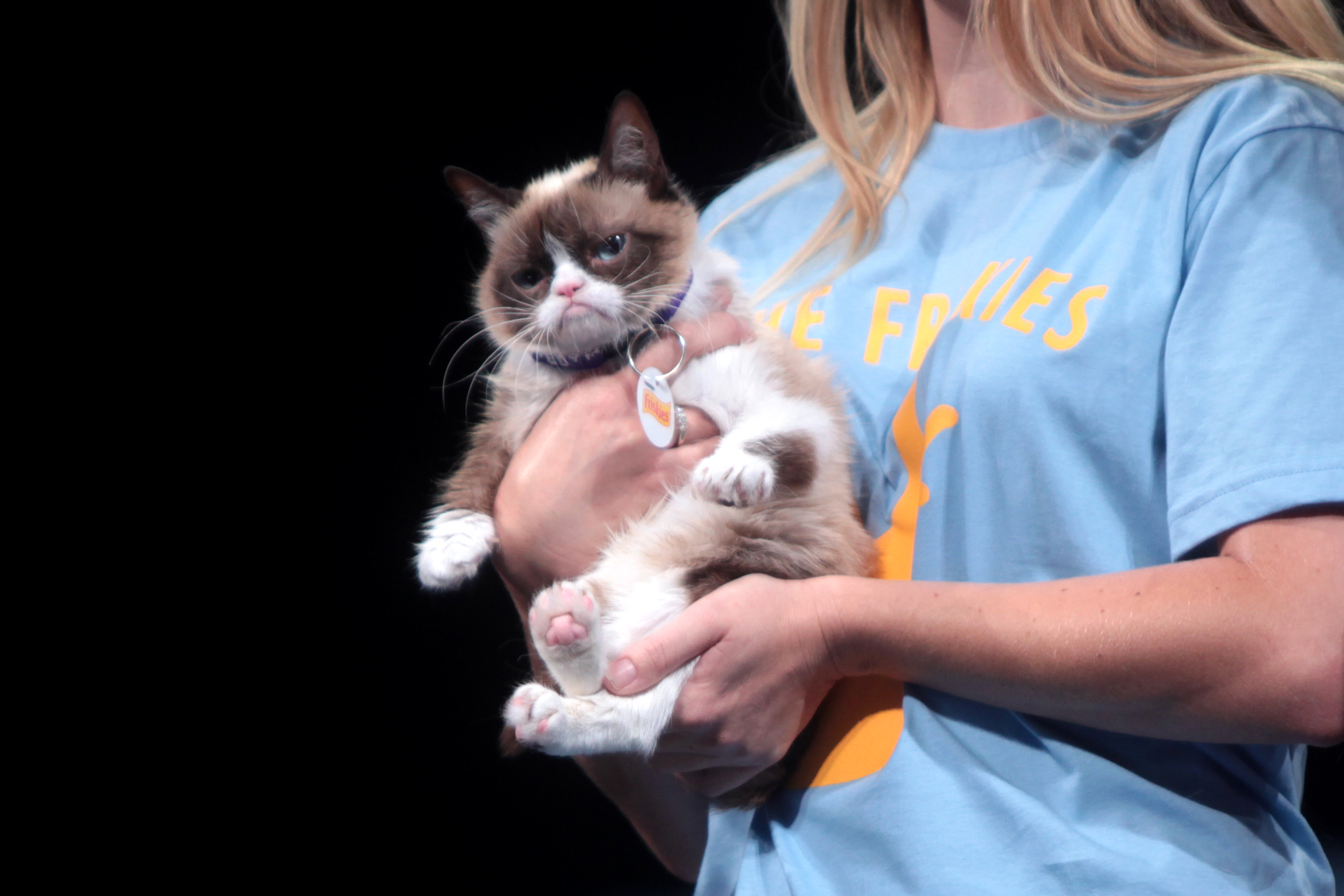 Grumpy Cat at the 2014 VidCon at the Anaheim Convention Center in Anaheim, California.